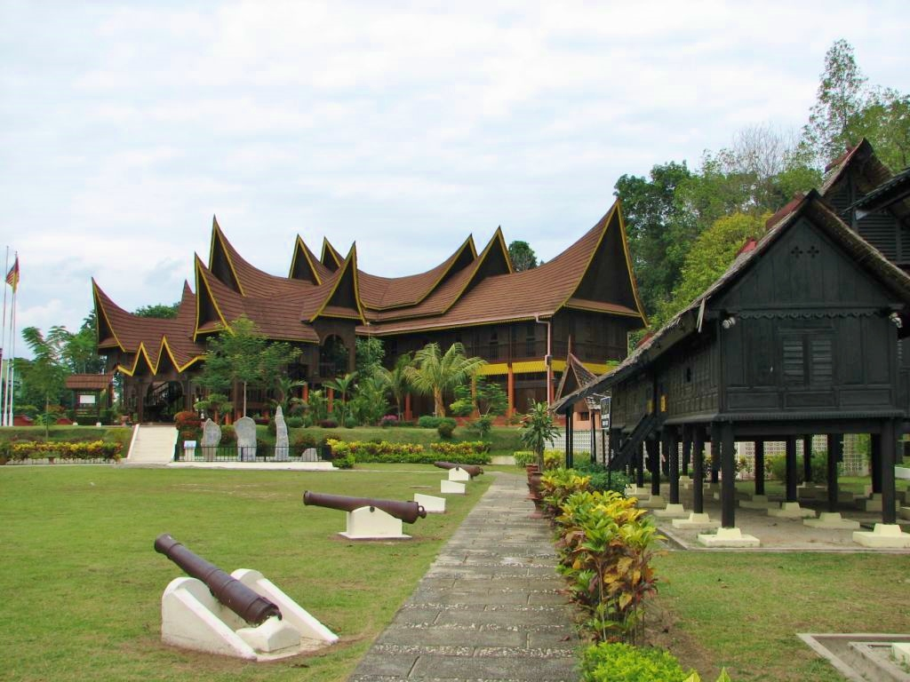 View of the Padang, buildings and cannons